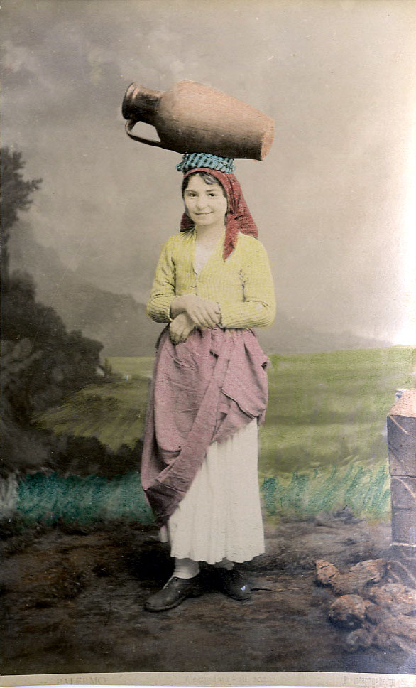 Eugenio Interguglielmi (1850-1911), " Palermo - Water-carrier". Hand-tinted photograph.